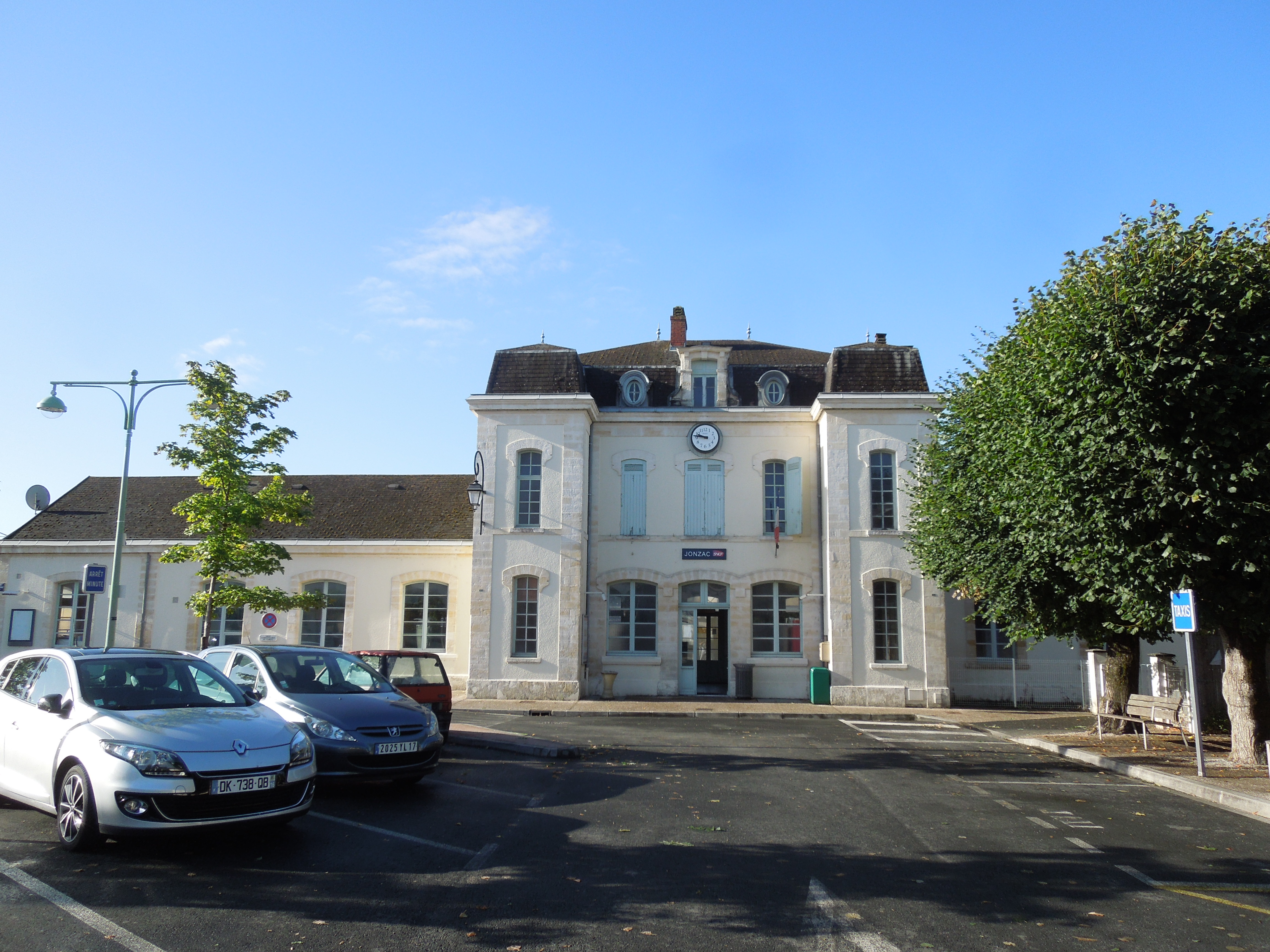 Jonzac, train station